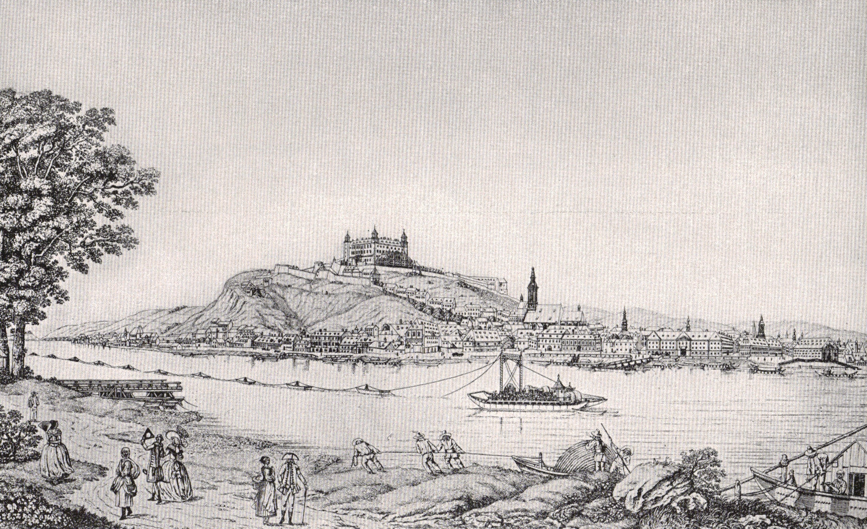 View of Bratislava (Pressburg), 1787